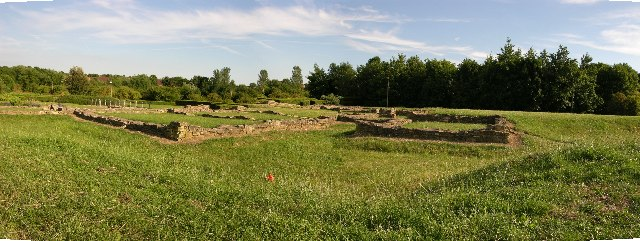 Bancroft Villa, Milton Keynes. Site of a roman settlement c. AD100. Evidence of earlier occupation back to bronze age also found.